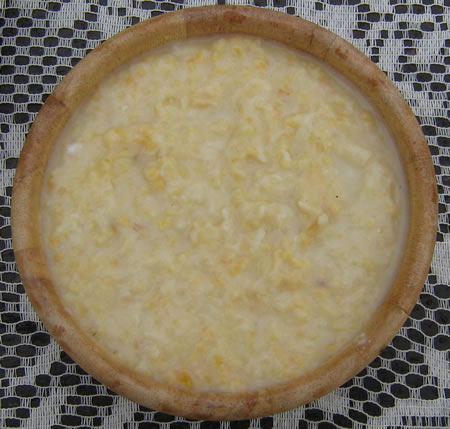 Typical Argentine mazamorra with milk.